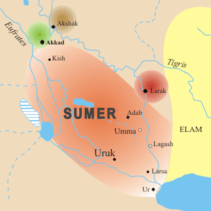 Sumer map